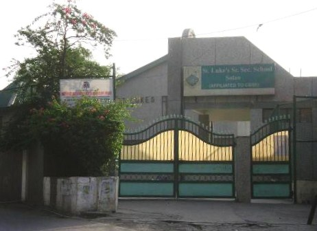 St. Luke's School, Solan